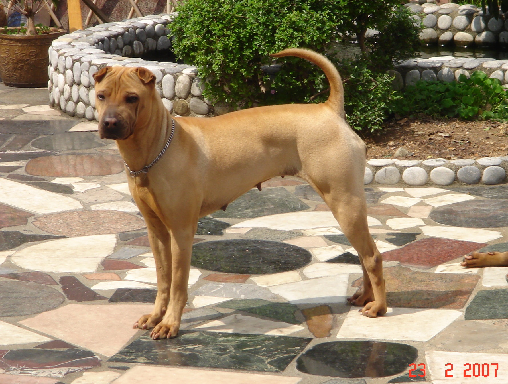 This is a typical photo of a bone mouth traditional Shar-Pei. CH Dali Pinky, Hong Kong Kennel Club Champion